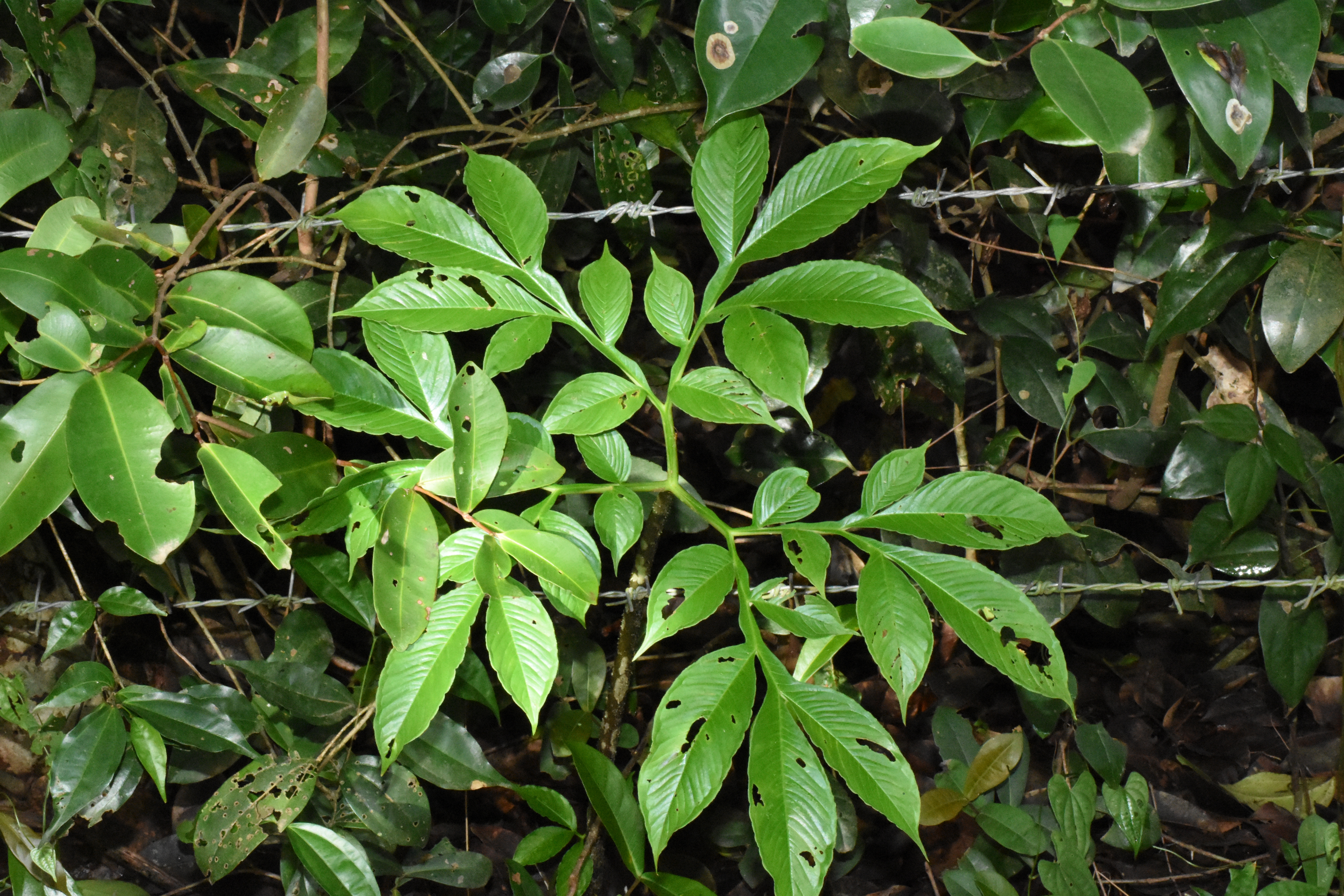 At Neeliyar Kottam